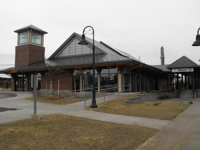 A photo of the new Saco Transportation Center (Amtrak Station) in Saco, Maine